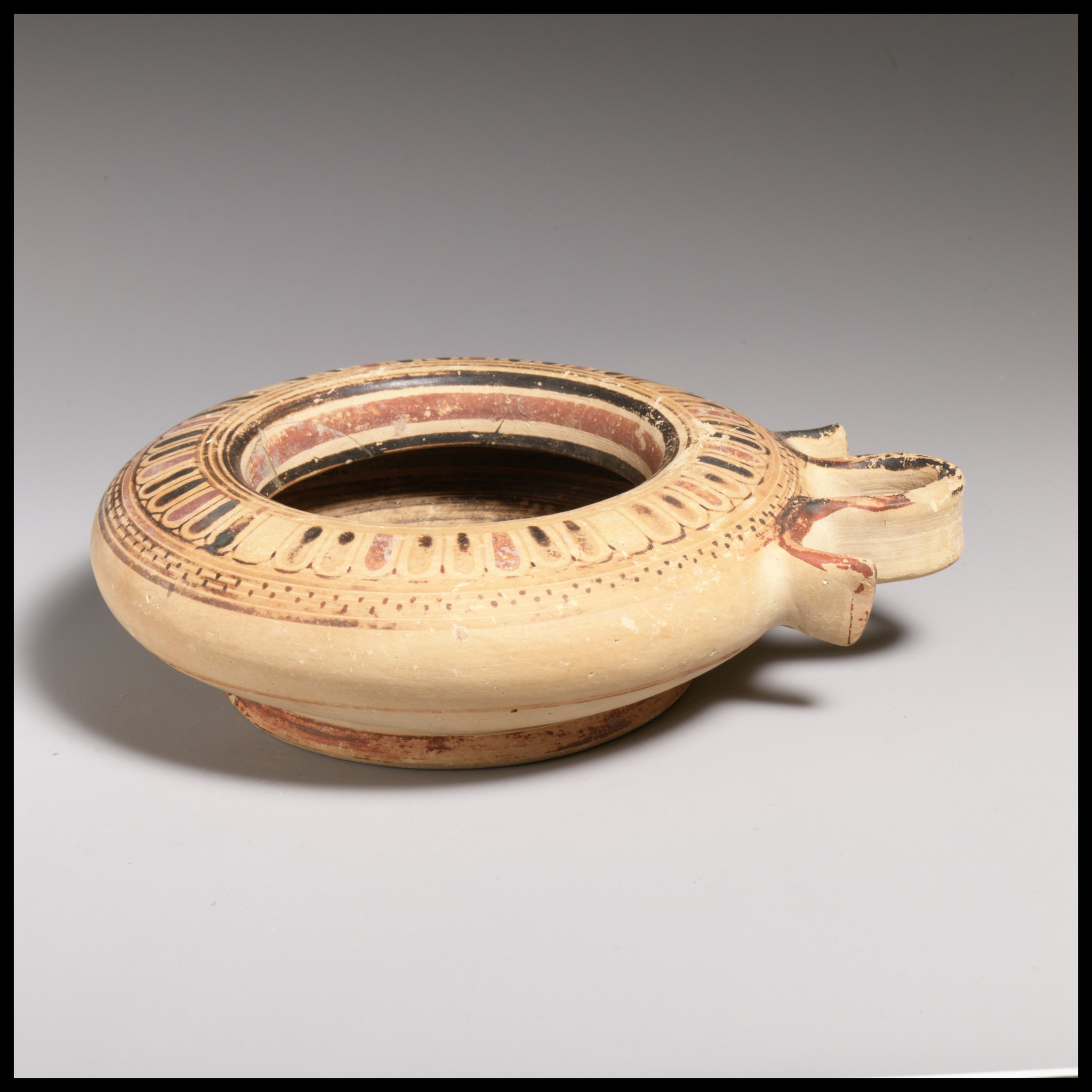 Greek, Corinthian; Kothon; Vases